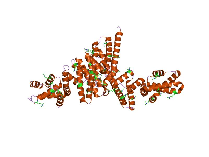 Cartoon representation of the molecular structure of protein registered with 1xl3 code.